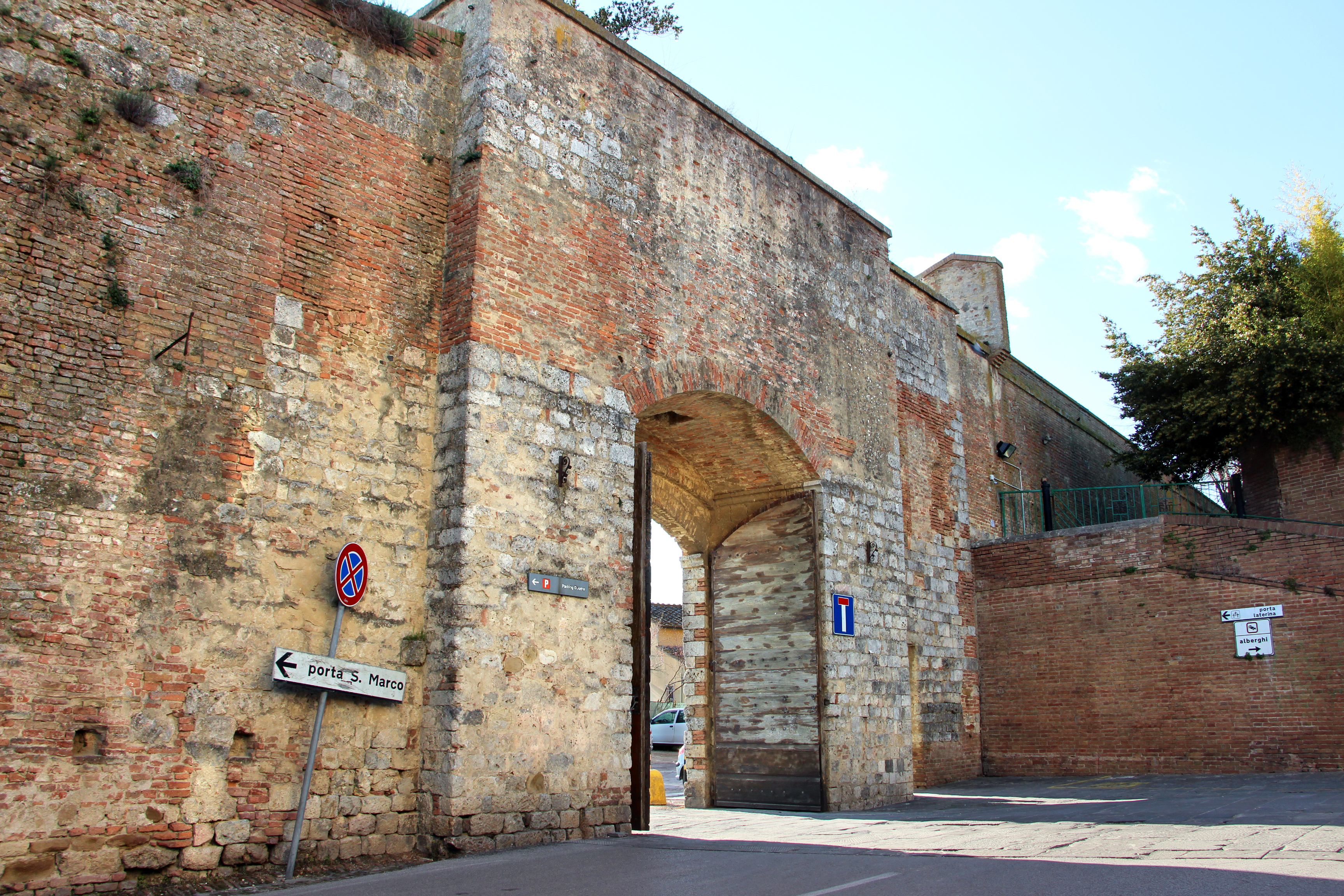 City gates in Siena